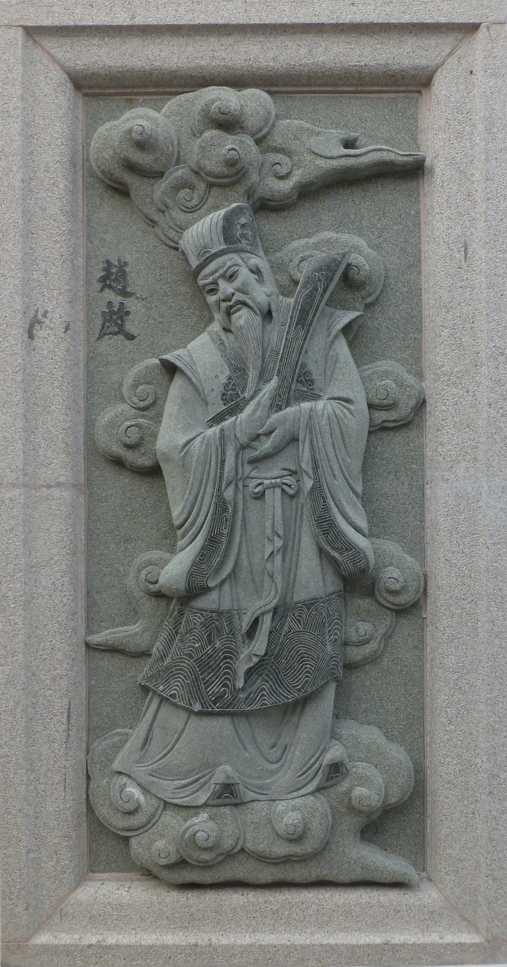 029 Zhao qi, Investiture of the Gods at Ping Sien Si, Pasir Panjang, Perak, Malaysia Photograph from the Ping Sien Si Temple in Perak, Malaysia taken by Anandajoti.